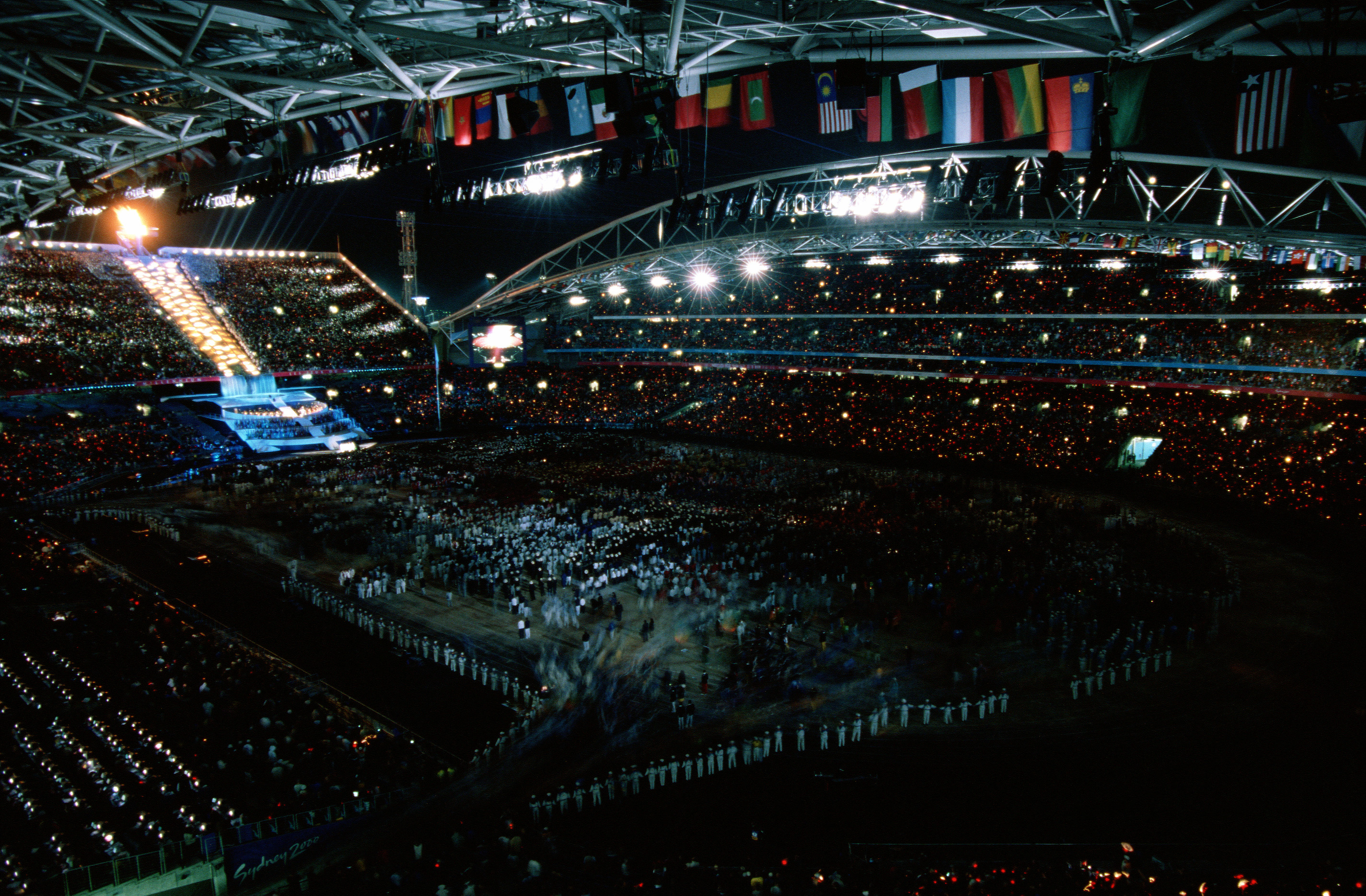 A high angle view as Olympic athletes stream out of the Olympic Stadium at the conclusion of the opening ceremonies for the Sydney 2000 Olympic games on September 15th, 2000.